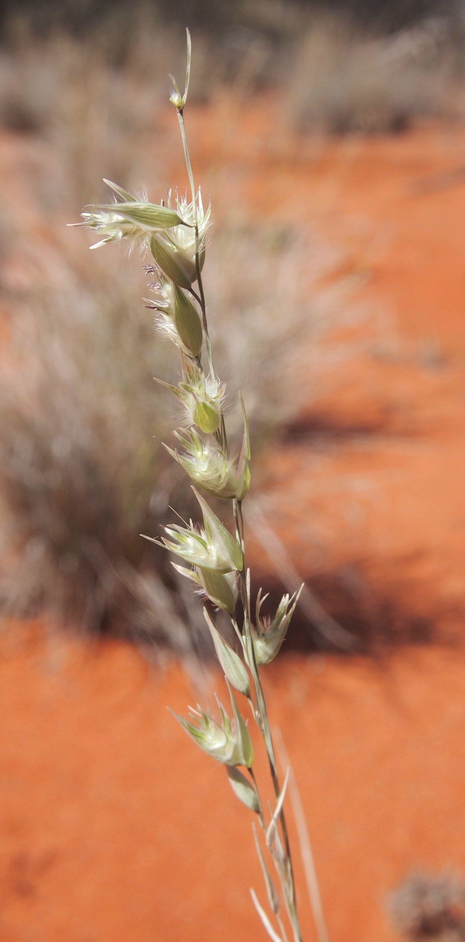 Monachather seed head